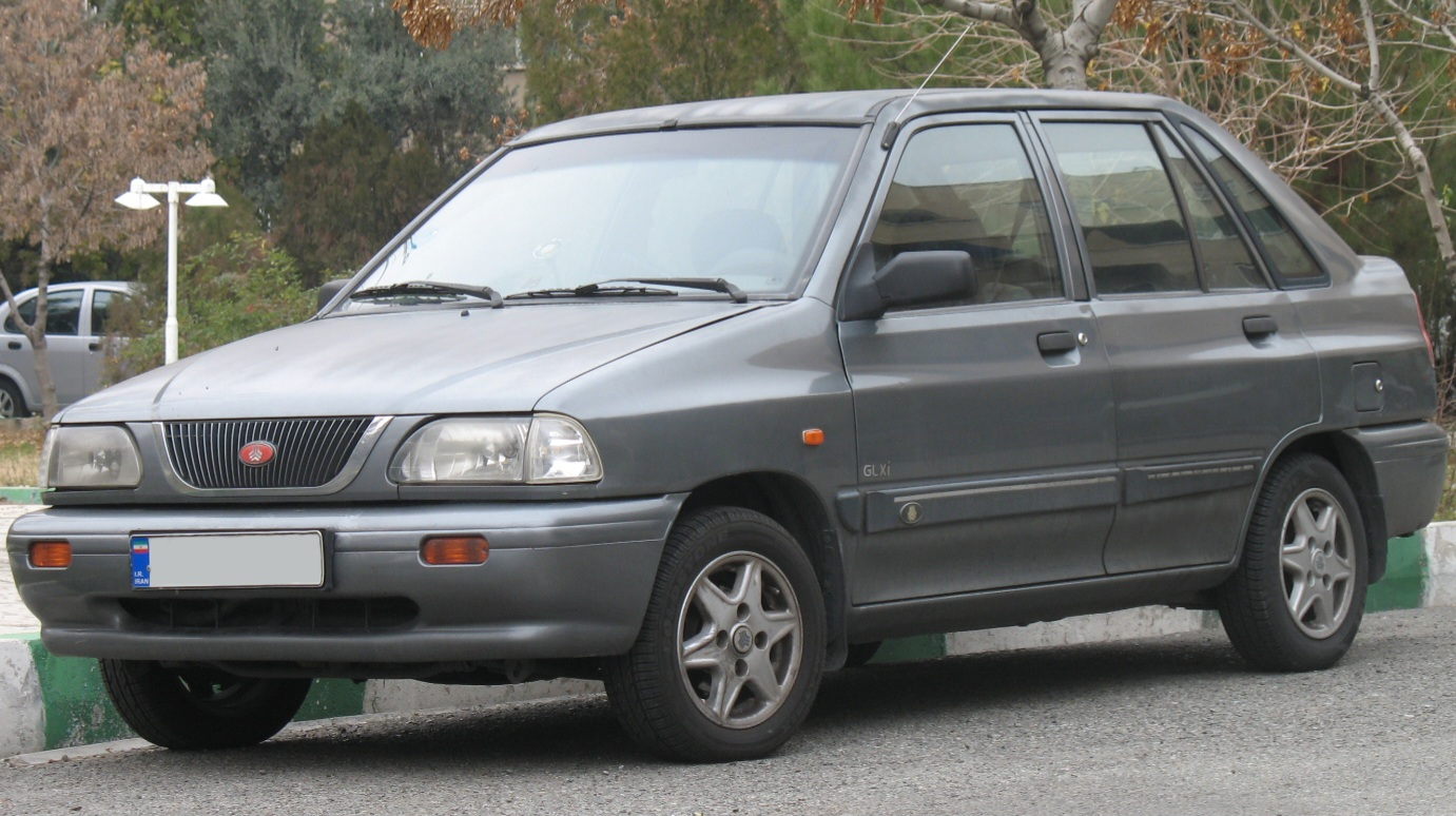 Saipa 141 with 13" alloy wheels and body-colored bumpers - colored fornt and rear bumpers in latest model years was replaced by solid black ones, same as those used on Saipa 131 and Saipa Saba models.